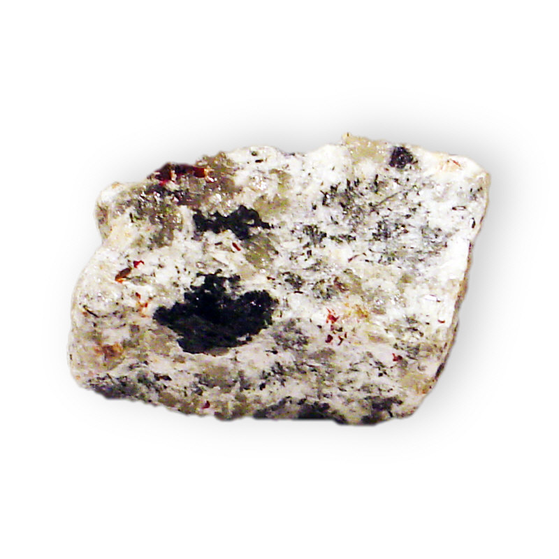 These mineral images are free to use how you wish.